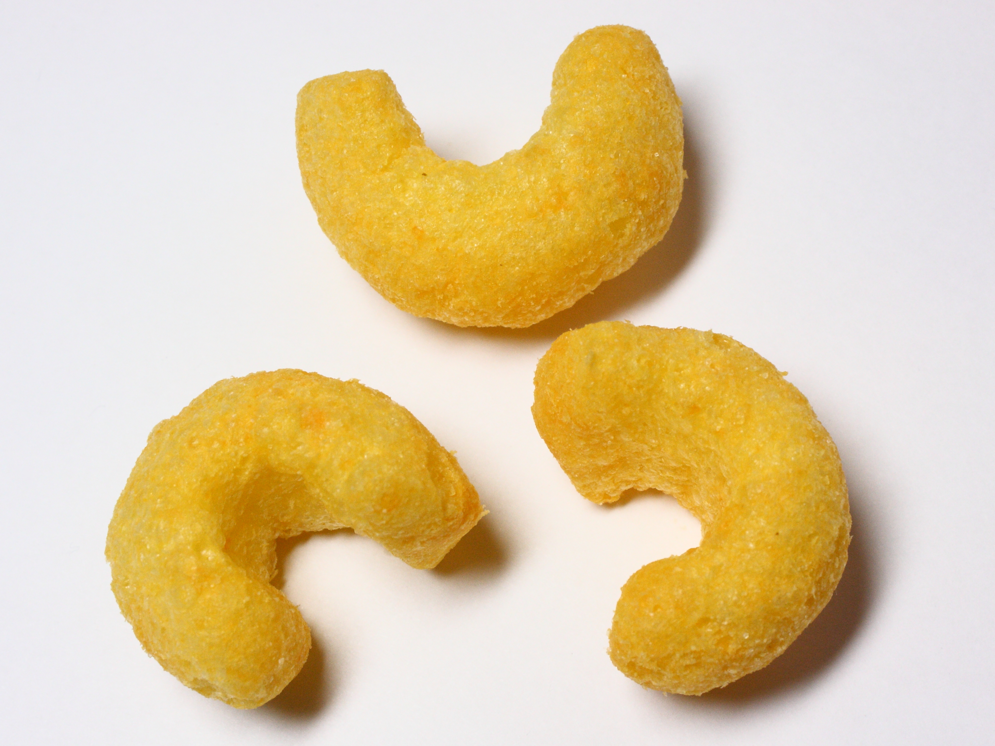 Meiji Seika "Karl" Cheese Flavor.